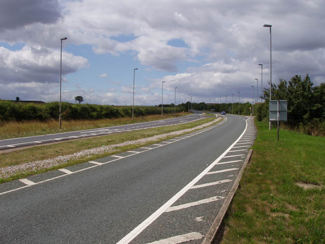 A 52 - Grantham Road. Junction of the A52 and Grantham Road on the outskirts of Bingham